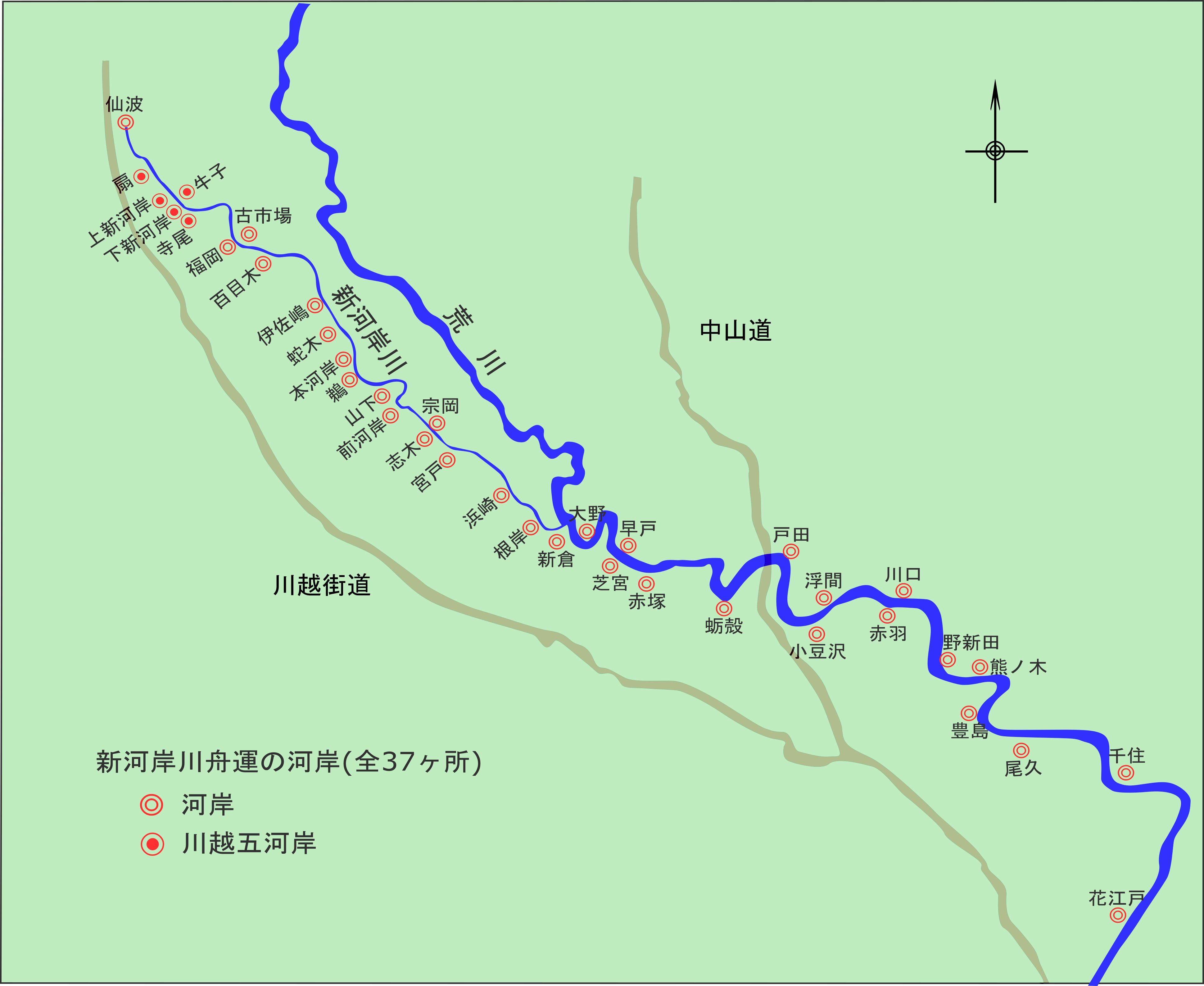 River sides（river ports）of Arakawa-river and Shingashi-river in Tokyo,Saitama, Edo perido.